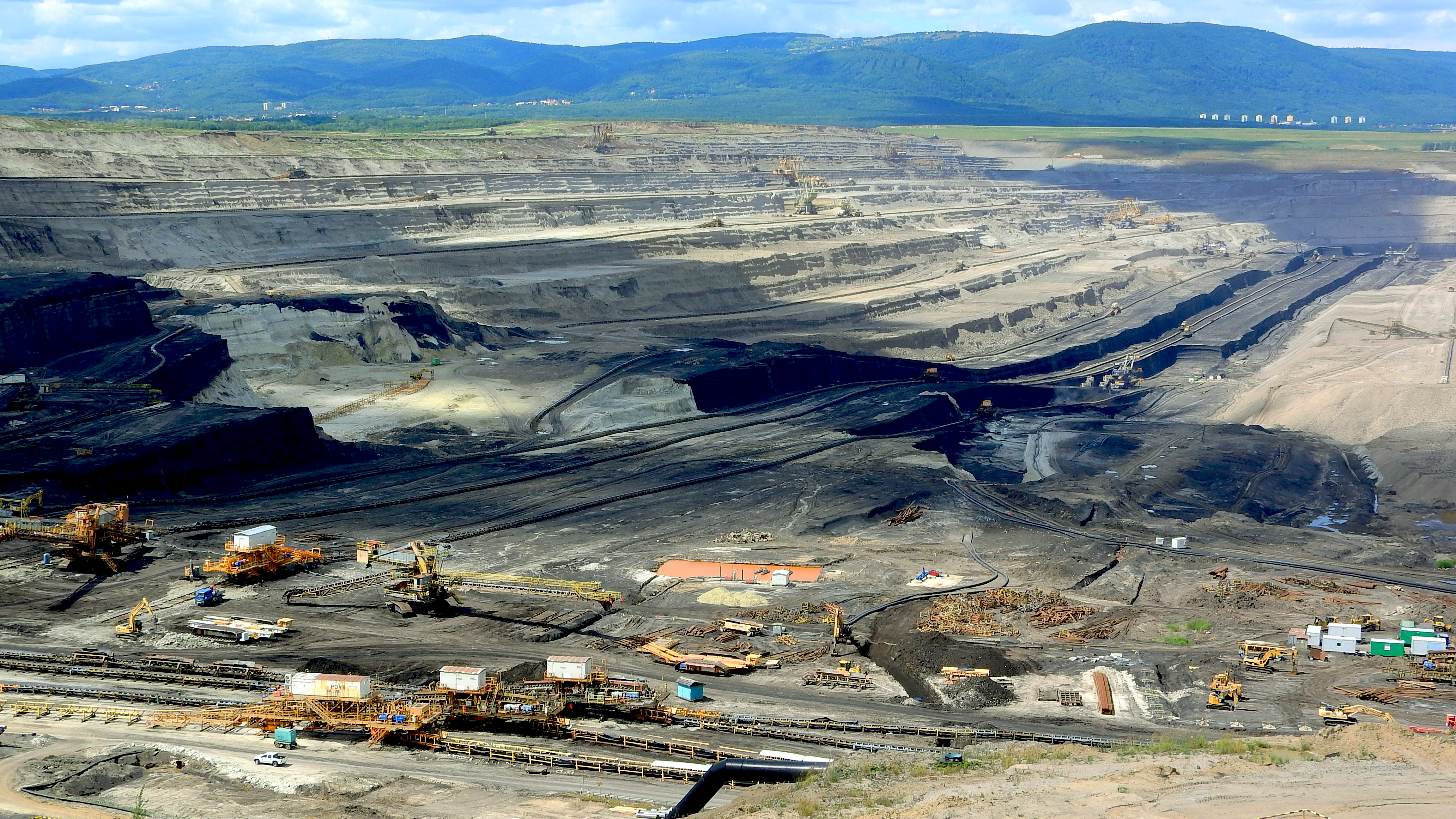 Coal mine site in Bílina, The Czech Republic, in june 2017.